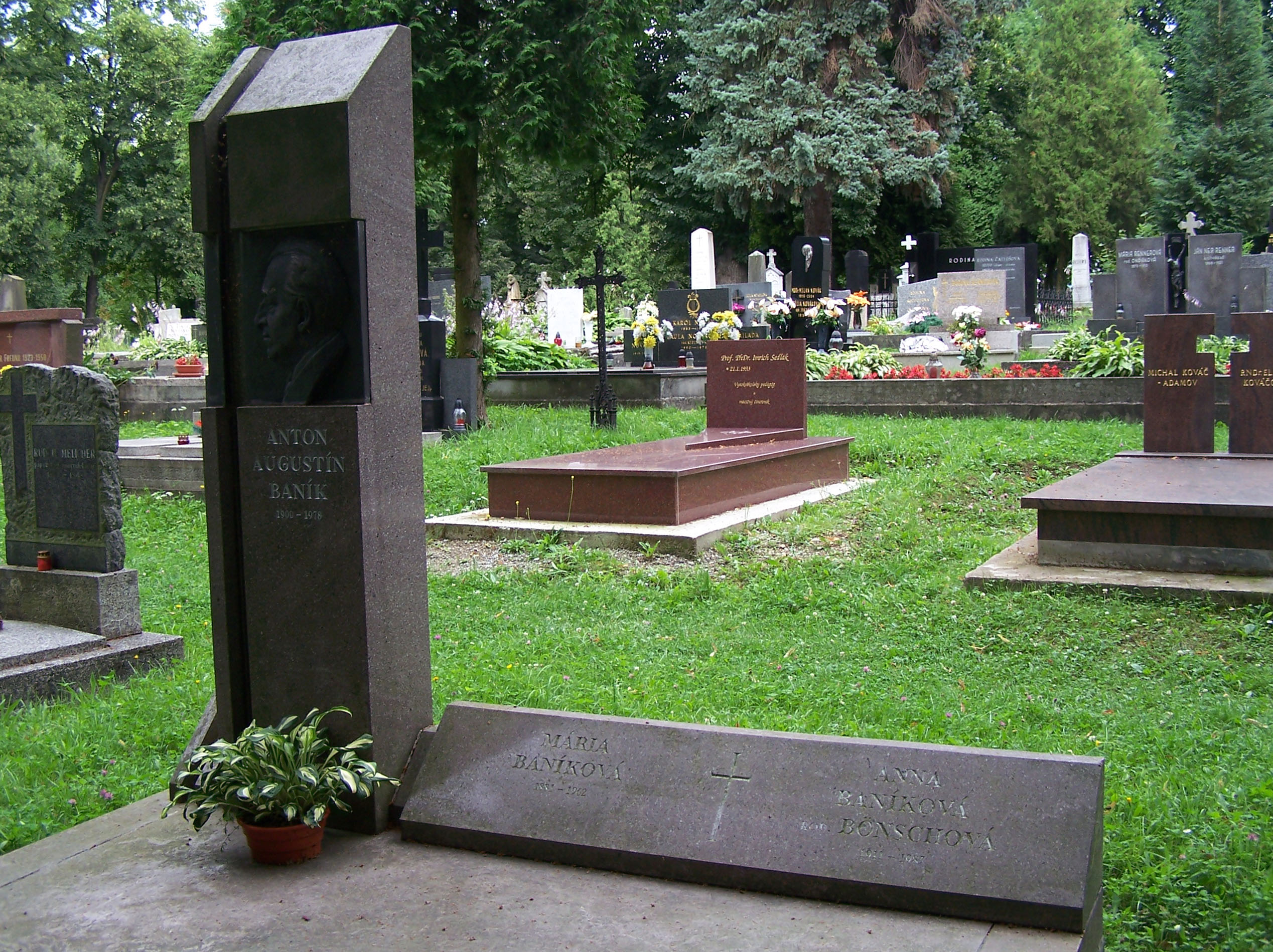 Grave of Anton Augustín Baník at the National Cemetery in Martin, Slovakia